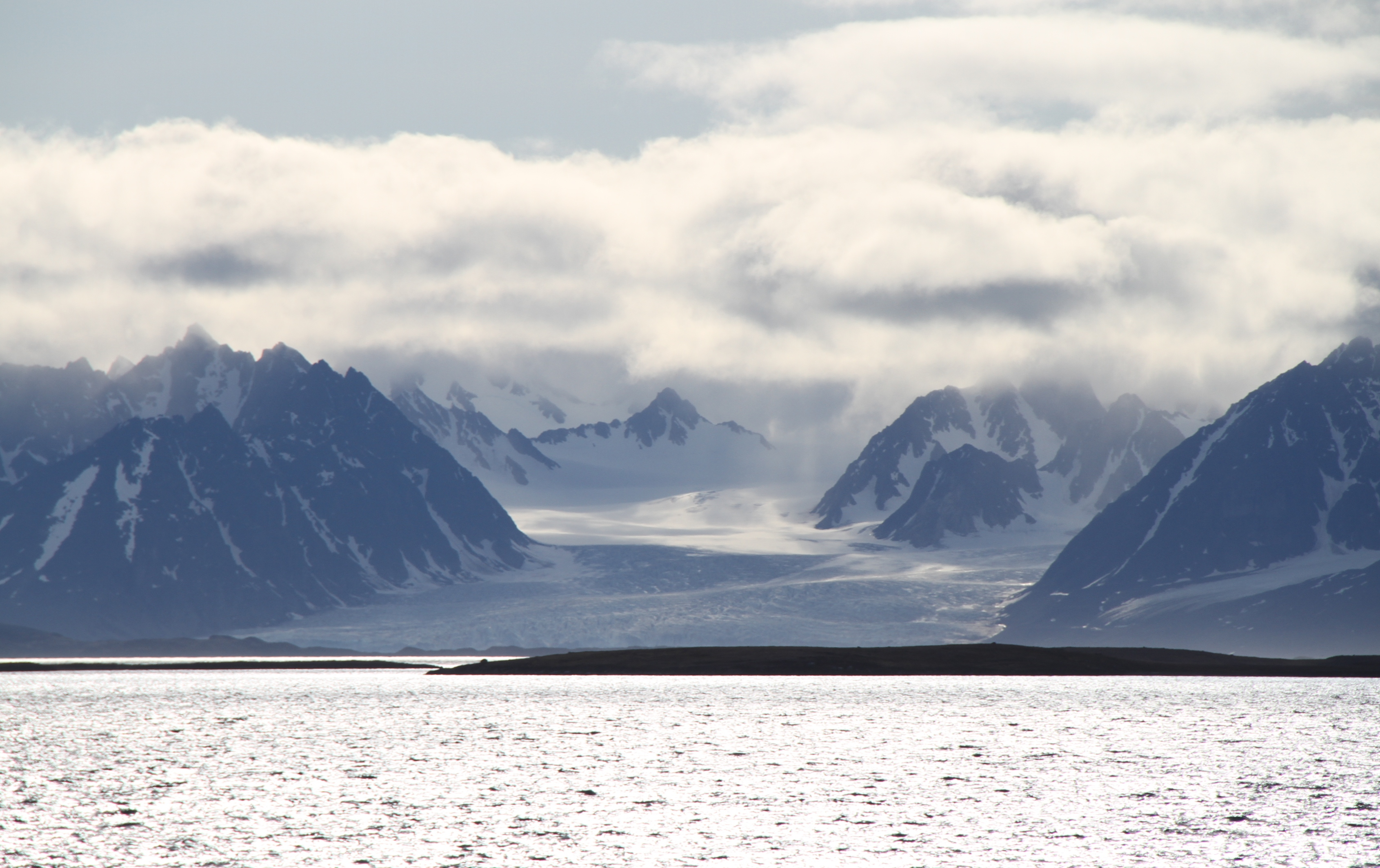 Photo from northeastern Haakon VII Land, on northern Spitsbergen. The western basin of the Woodfjorden area.